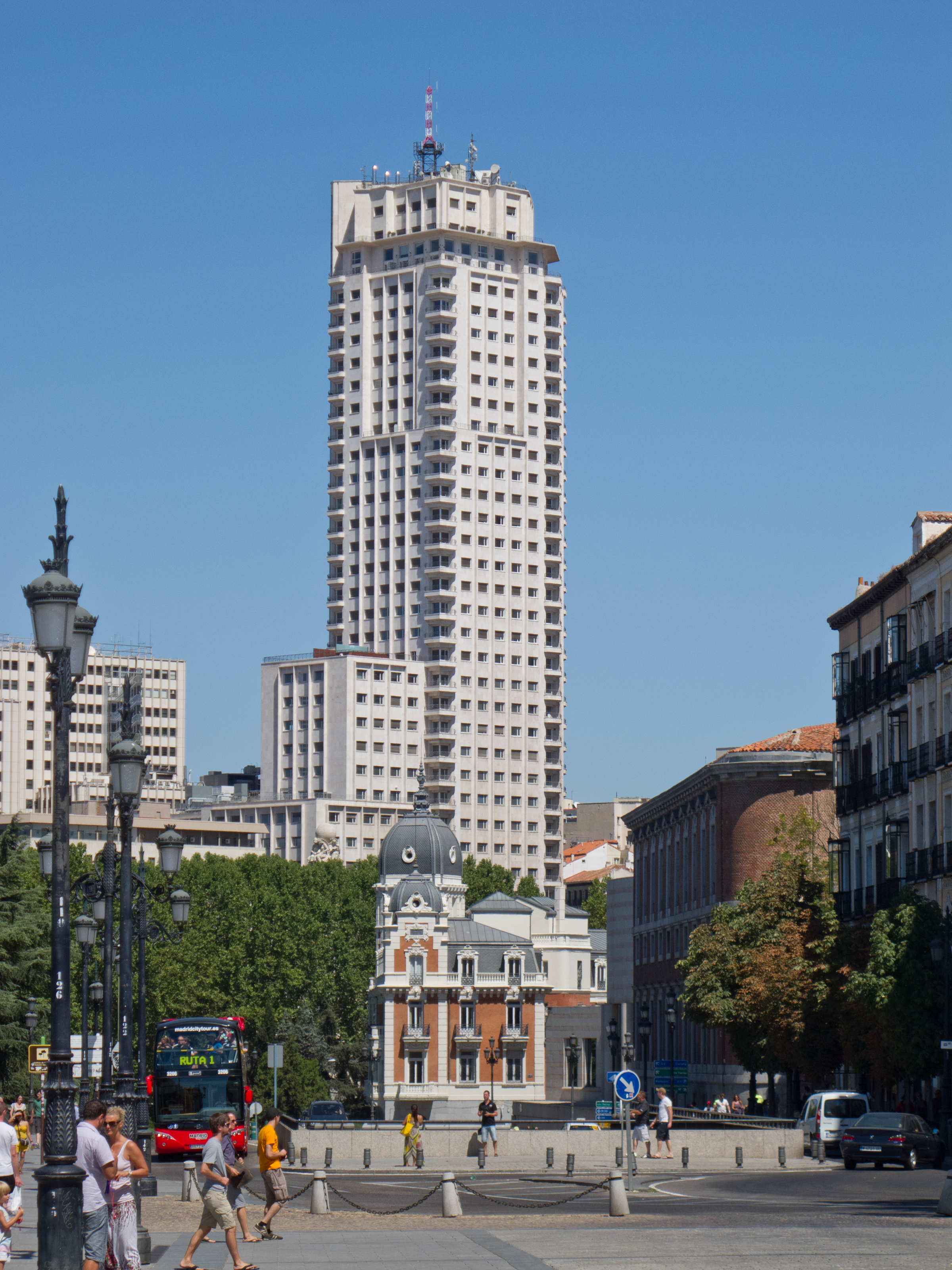 Tower of Madrid, Madrid, Spain.